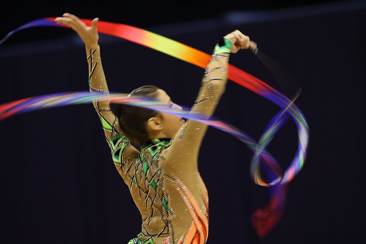 OCTOBER 12, 2008 - Rhythmic Gymnastics : The AEON CUP 2008 Worldwide R.G. Club Championships at Tokyo Metropolitan Gymnasium on October 12, 2008 in Tokyo, Japan. (Photo by Tsutomu Takasu)